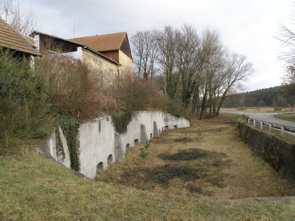 Velký pramen (Big Spring) by Mělnická Vrutice village (Czech Republic).